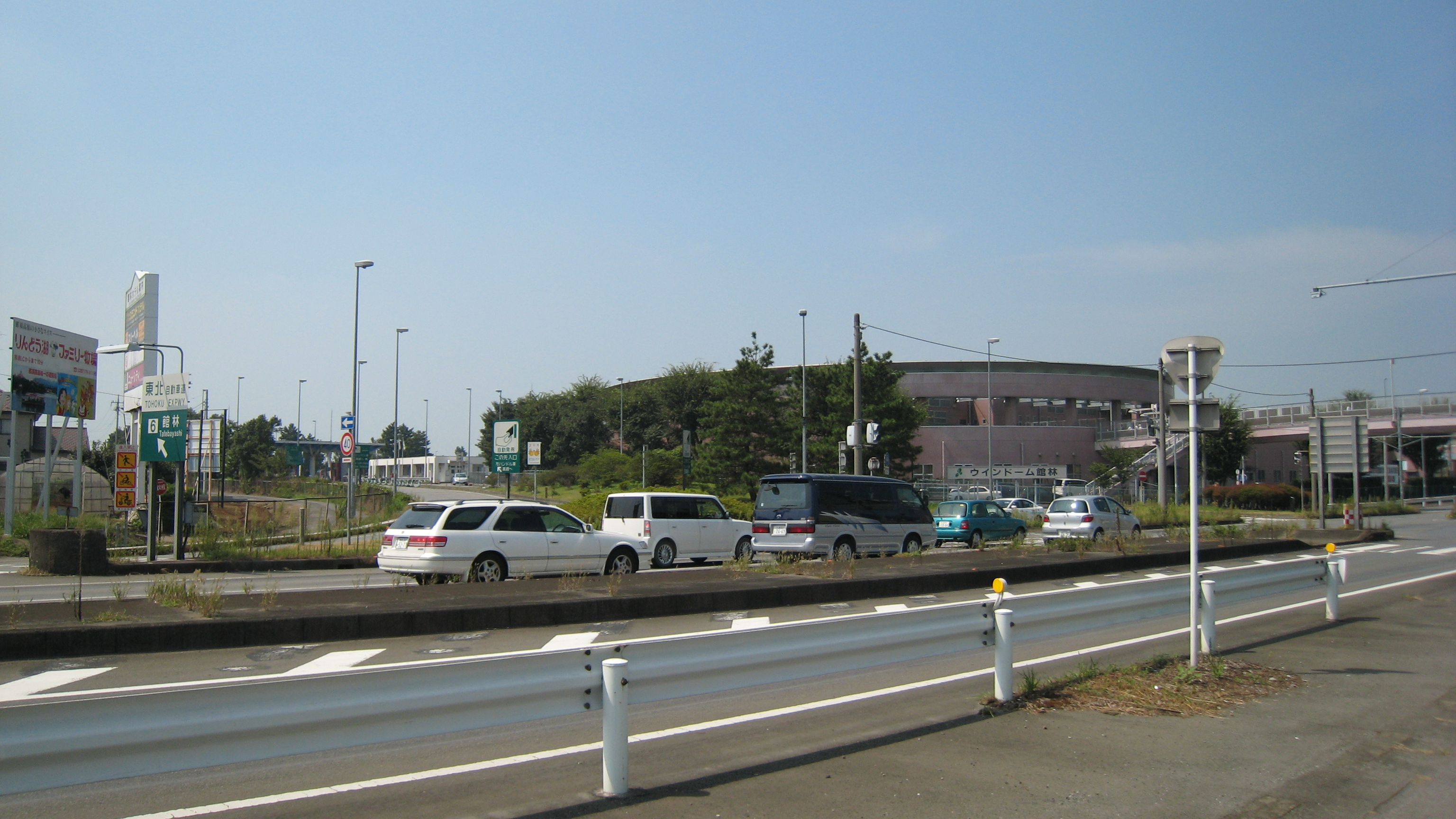 Tatebayashi Interchange(Tohoku Expressway) in Tatebayashi,Gunma prefecture,Japan